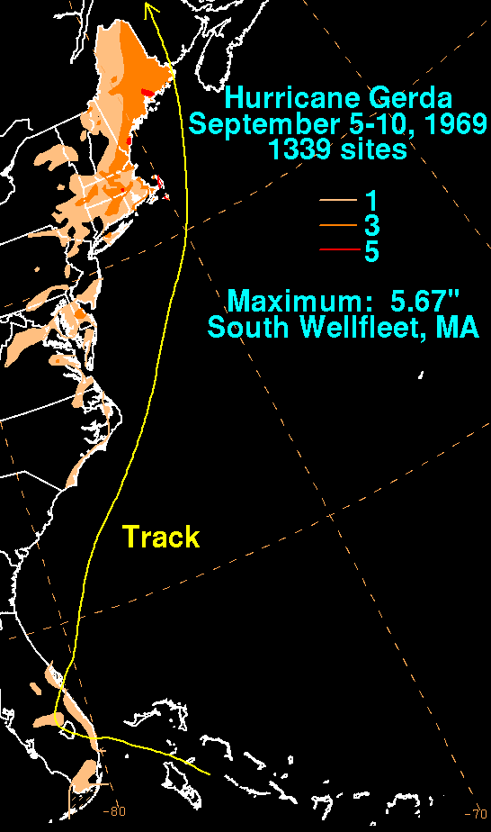 Storm total rainfall map of Hurricane Gerda during September 1969.